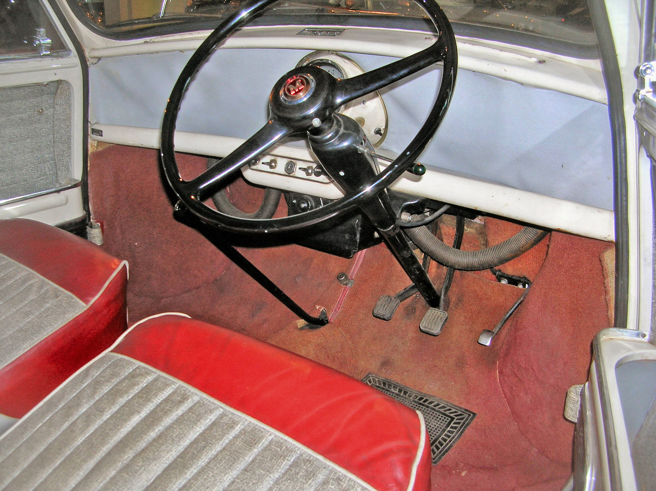 A 1959 Morris Mini-Minor interior. This car, with registration number 621 AOK, was the first Mini off the production line to be badged Morris. It was never sold, and is now kept at the British Motor Museum, Gaydon, UK.